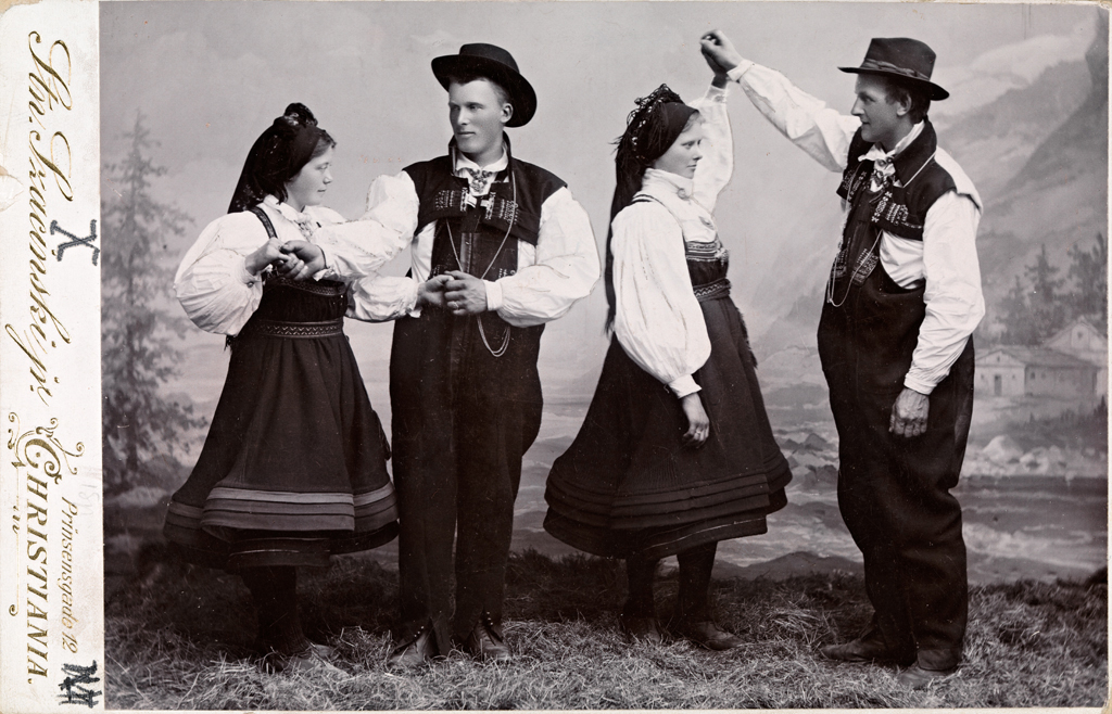 Tittel / Title: Bunadskledd ungdom fra Setesdal danser, ca 1905 Motiv / Motif: Kabinettkort. Fotografiet har tilhørt Hulda Garborg. Dato / Date: ca 1905 Fotograf / Photographer: Stanislaw Szacinski (Christiania) Eier / Owner Institution: Nasjonalbiblioteket / National Library of Norway Lenke / Link: Bildesignatur / Image Number: blds_03755